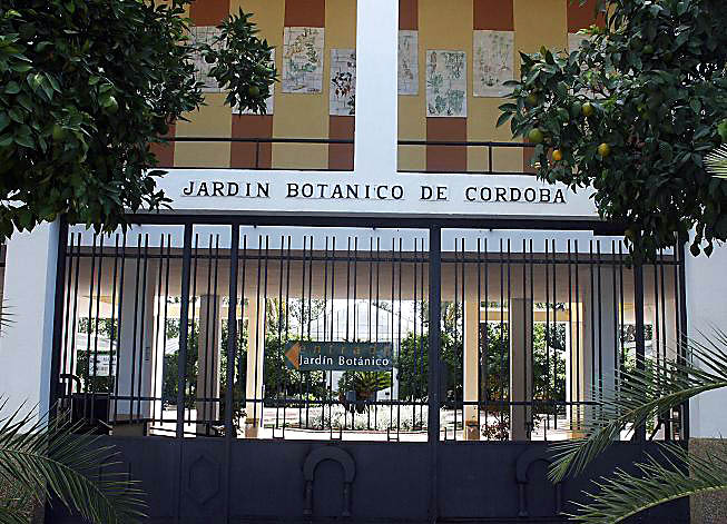 Entrance of Botanical Garden of Córdoba (Spain).